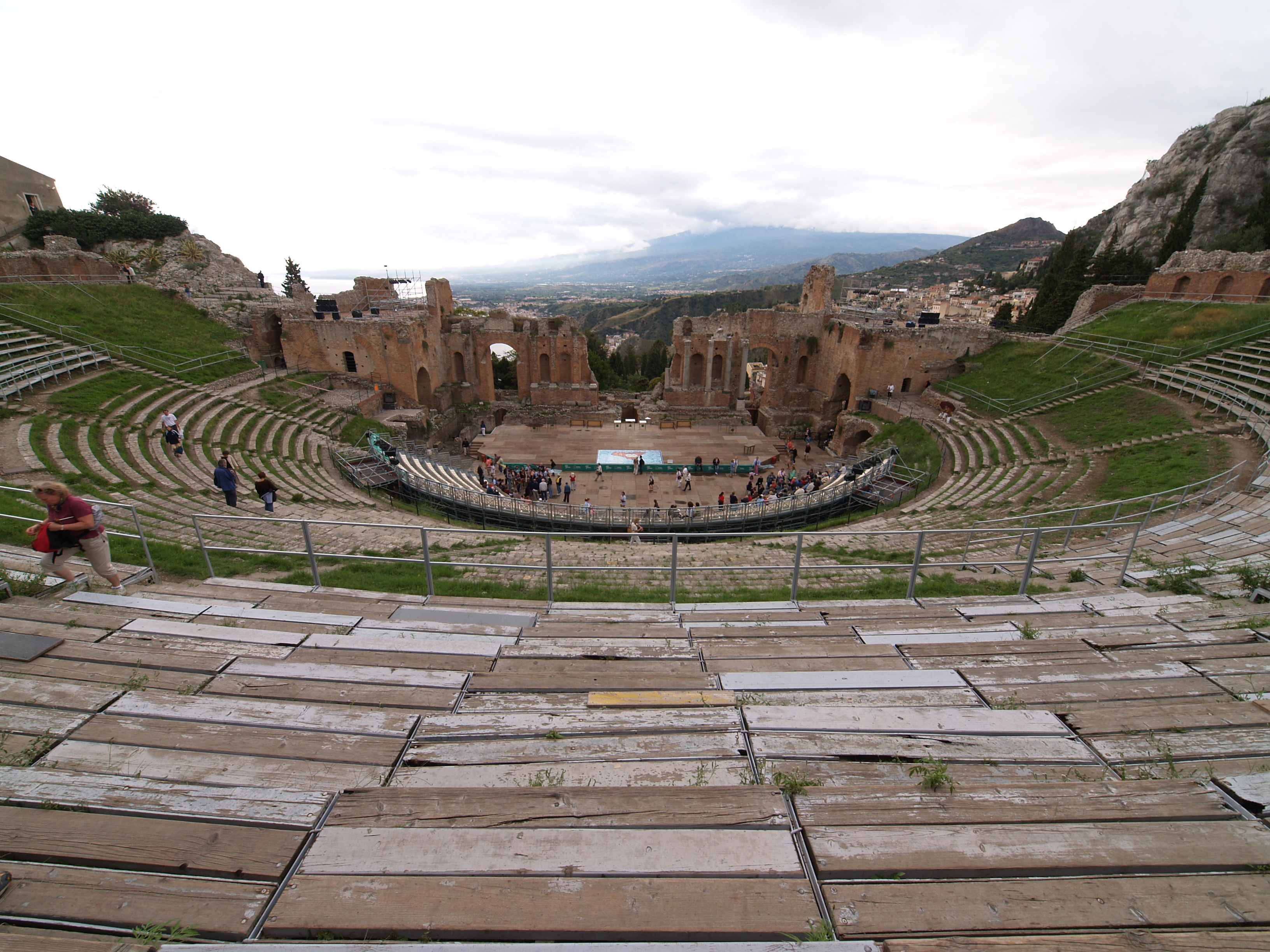 The Greek Roman theatre at Taormina, Sicily, in full shot